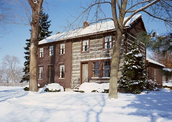 Joseph Smith House, Nauvoo (Hancock County, Illinois)(cropped)